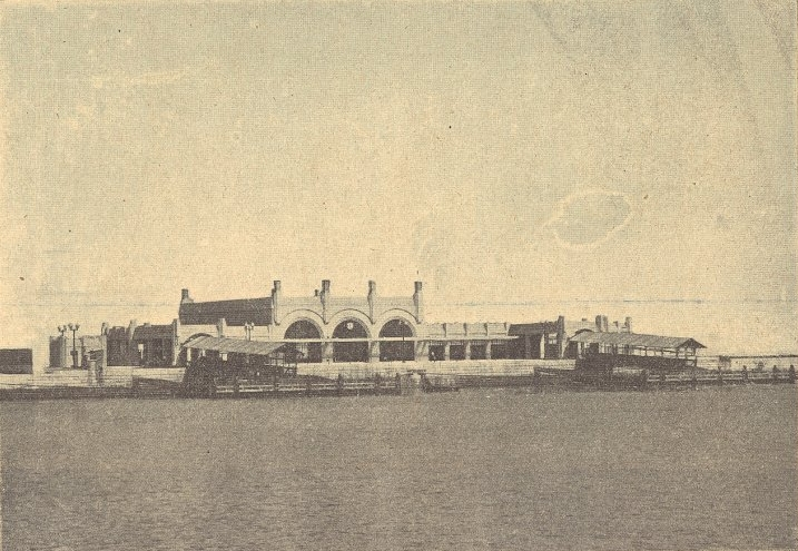 Sul e Sueste Railway Station, in the city of Lisbon, in Portugal. Although it was only a ferry terminal, it was classified as a railway station, because the ferries to Barreiro were considered part of the trains with origin or destiny in the South of the country. This photograph was originally published in the Gazeta dos Caminhos de Ferro No. 1085, of the 1st March 1933, and scanned by the Hemeroteca Municipal de Lisboa.